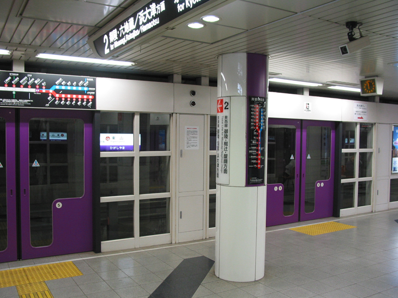 Platform of the Higashiyama Station, Tozai Line Kyoto City Subway 京都市営地下鉄東西線東山駅ホーム